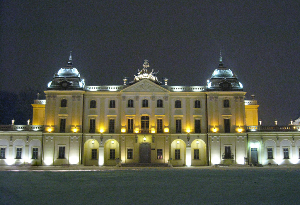 Medical University of Białystok